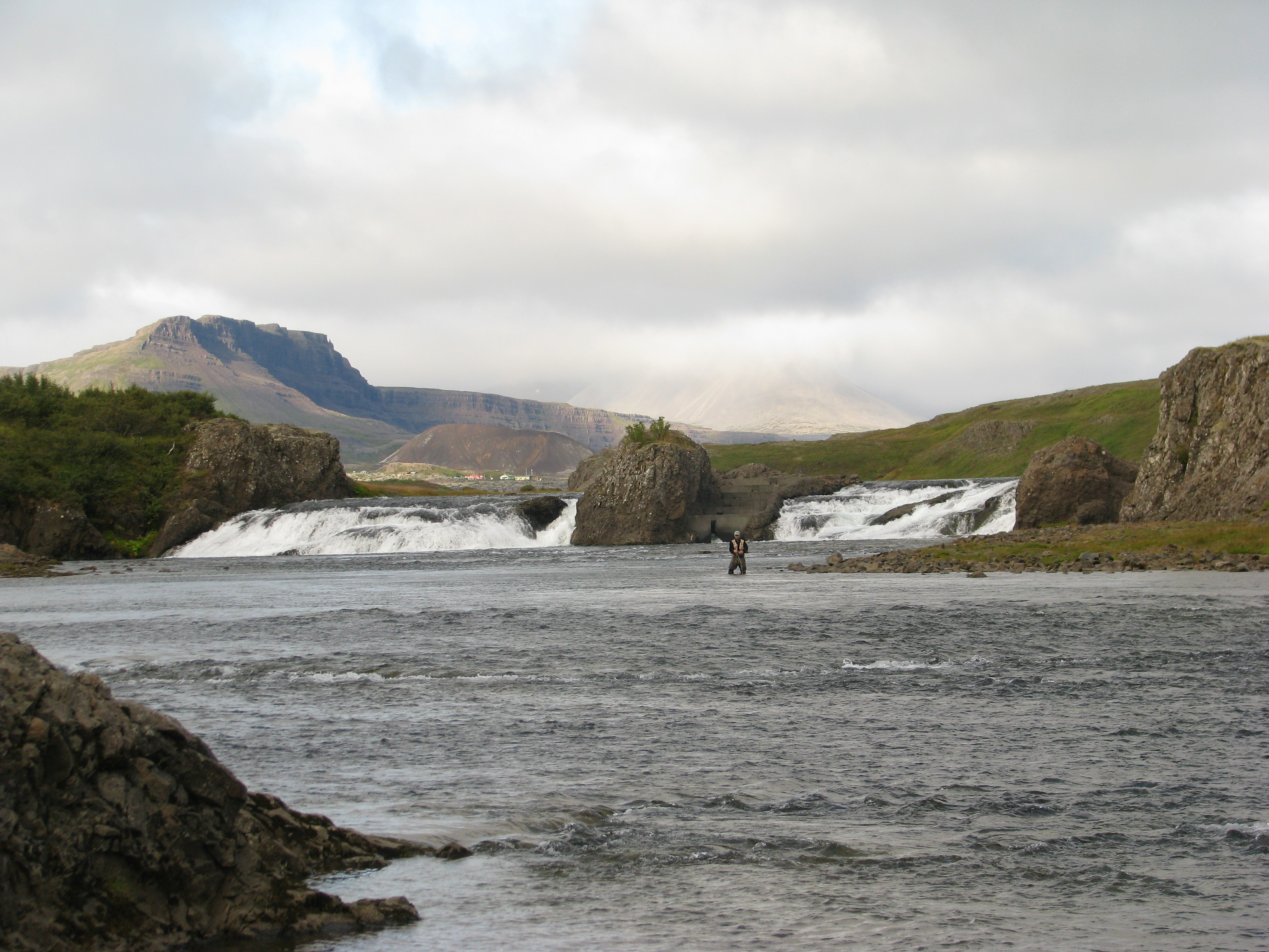 Laxfoss, a waterfall on Iceland.